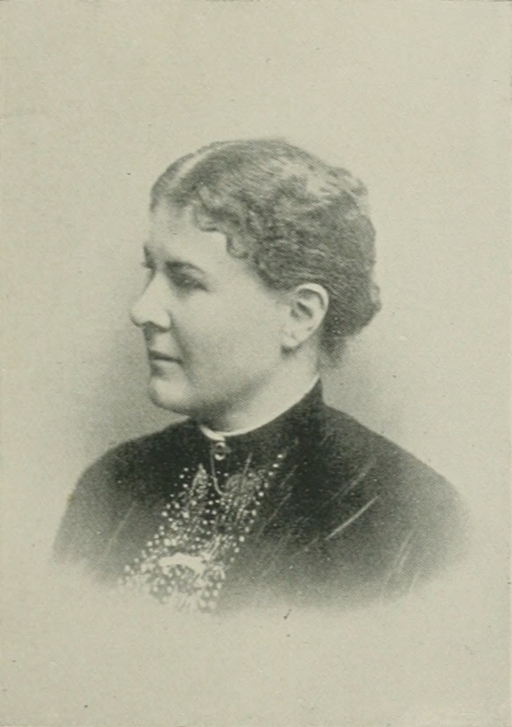 A woman of the century.djvu